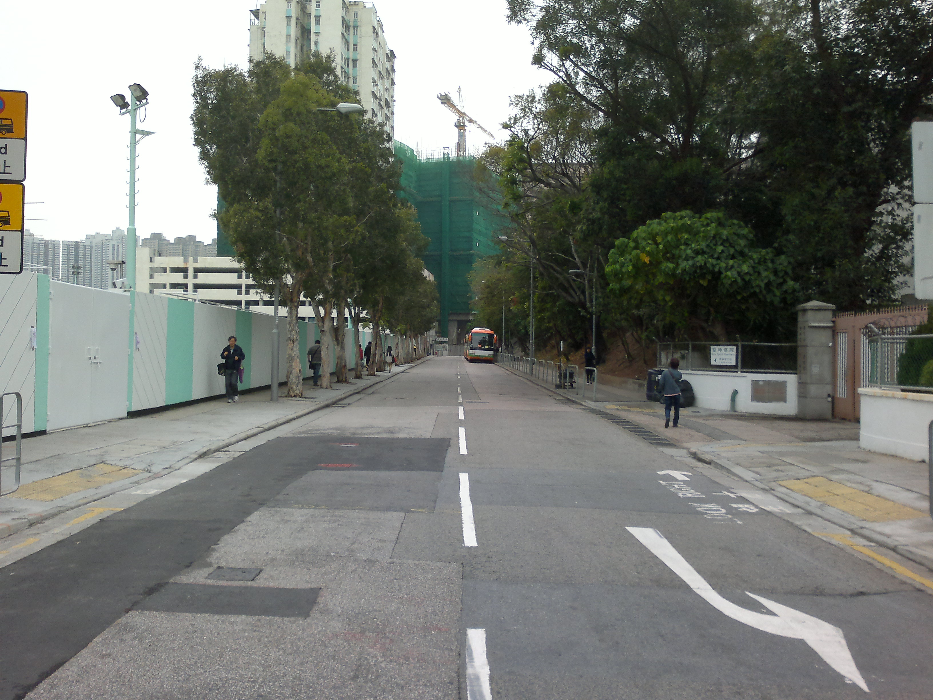 Welfare Road